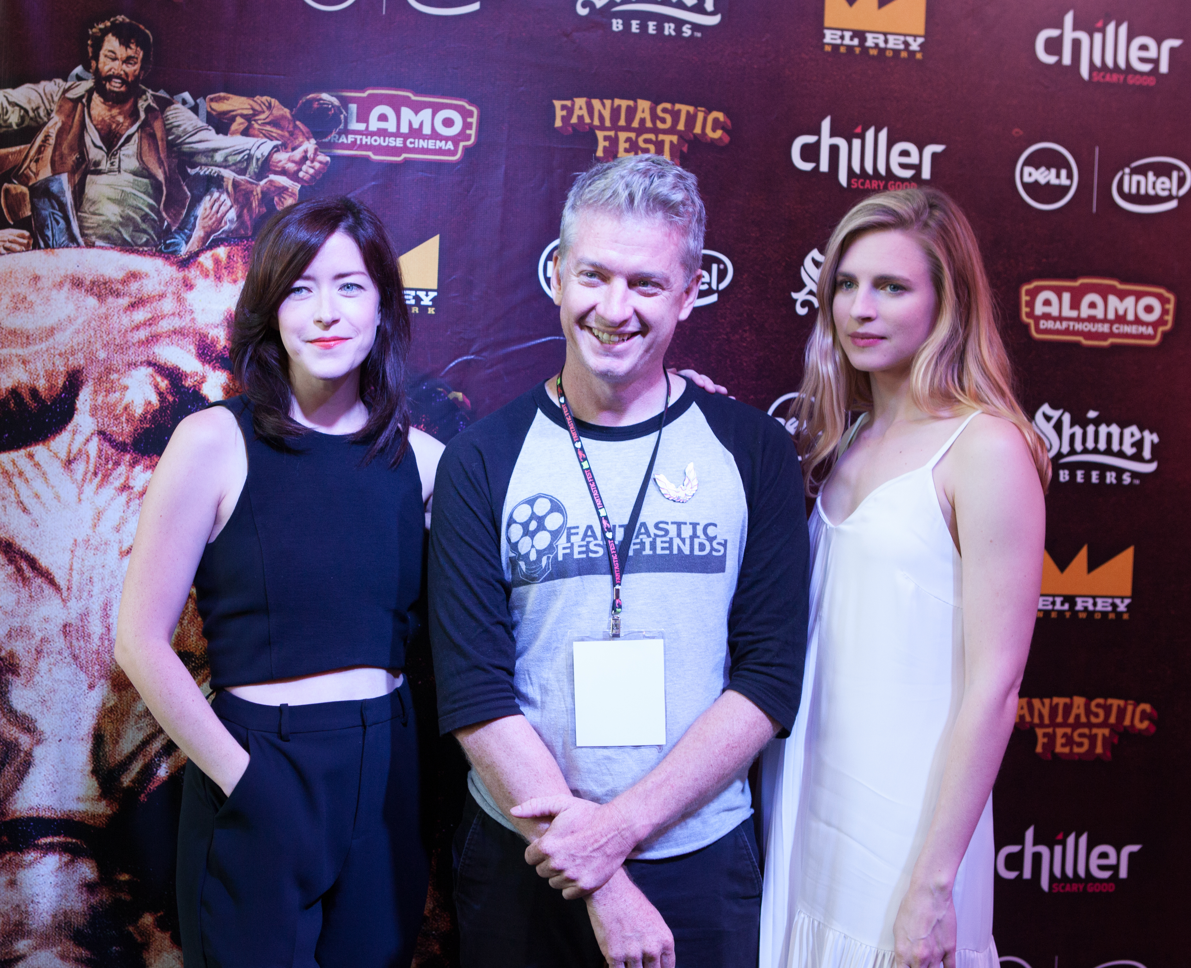 Julia Hart, Tim League and Brit Marling red carpet Fantastic Fest 2015-9888.jpg